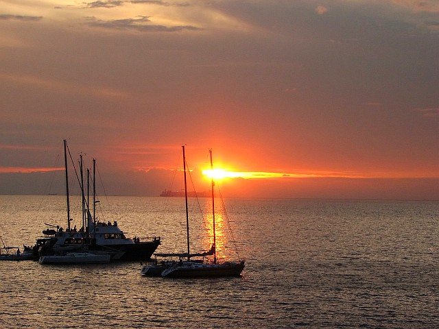 Author: zerwell Source: Personal URL: no URL Tags: Manila Bay